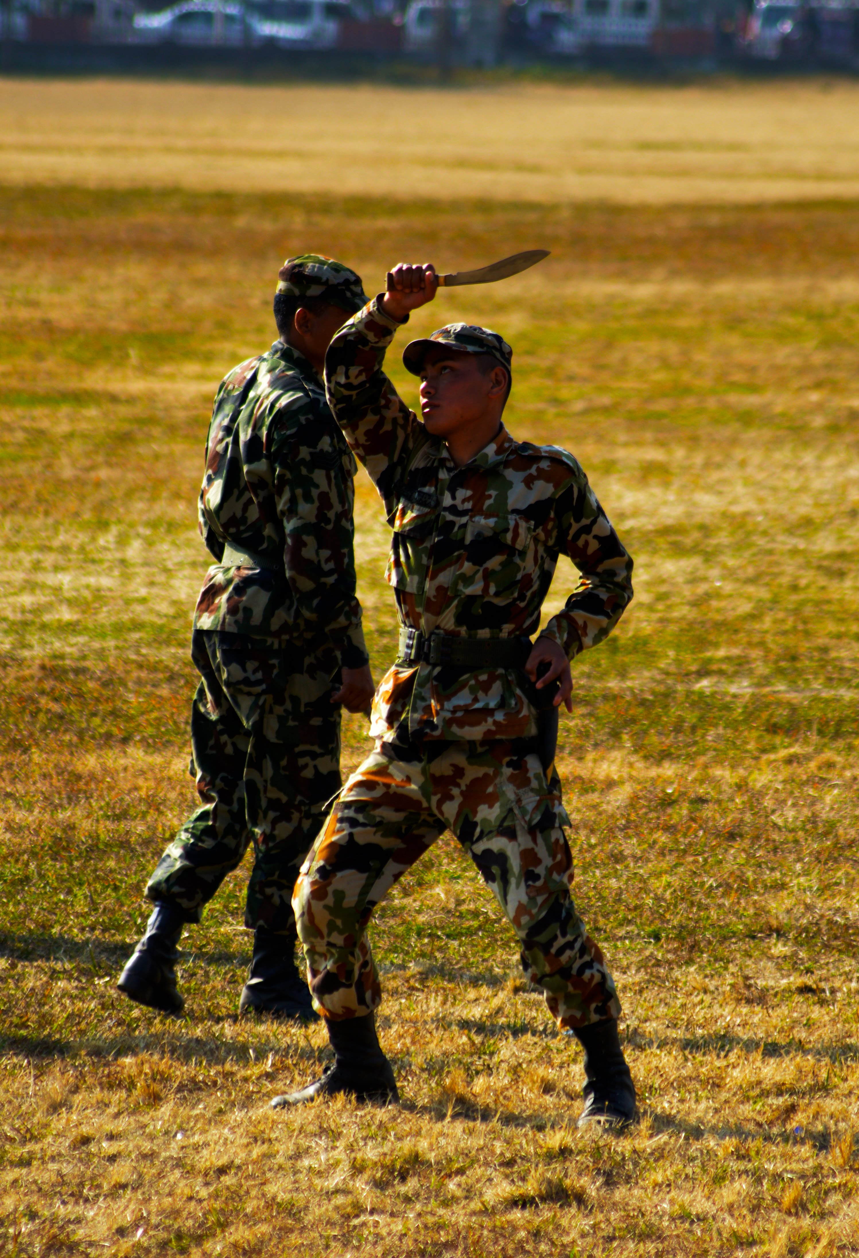 Nepal Army - Kathmandu